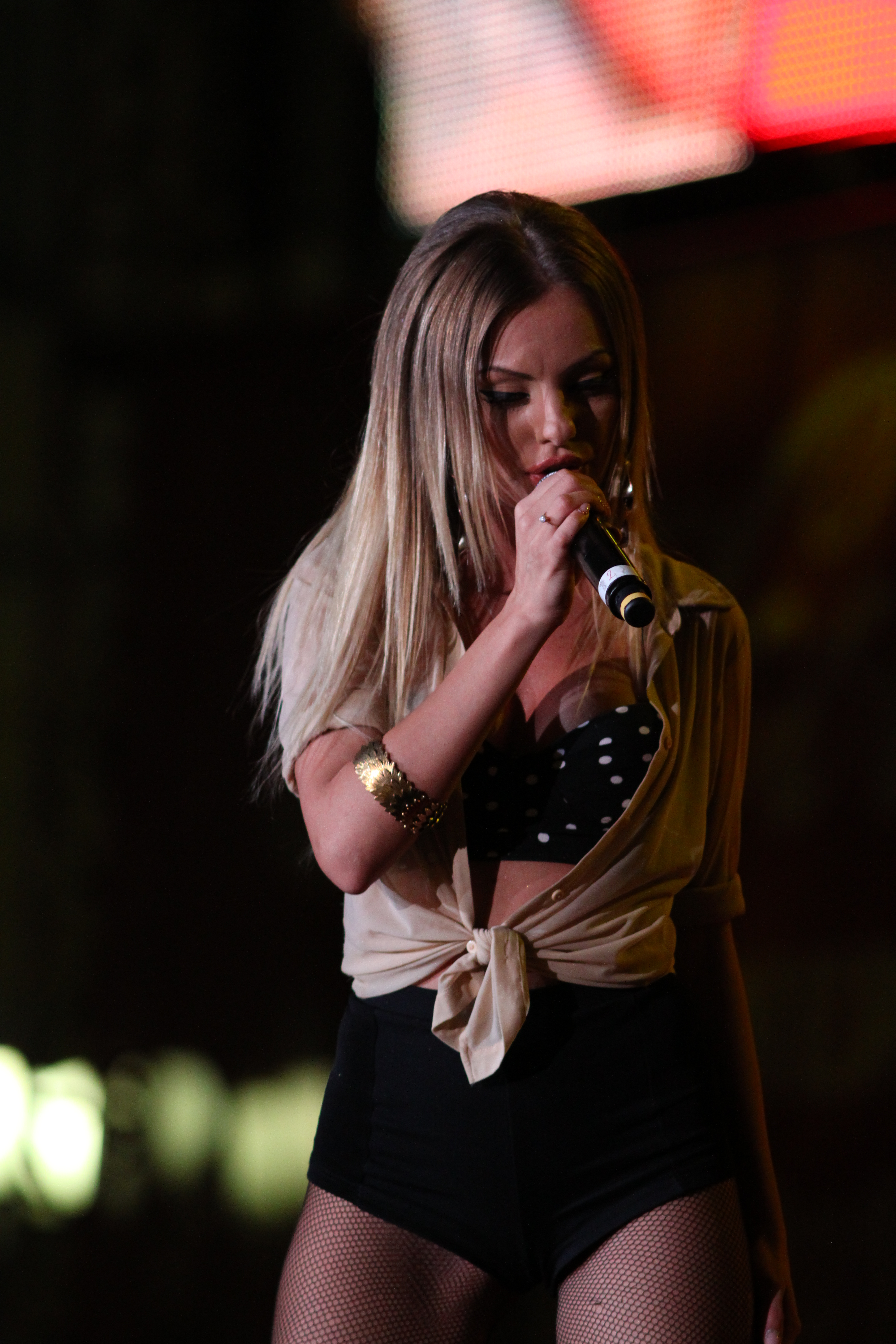 Alexandra Ioanna Stan (sometimes stylized as Alexandra Staи) (born June 10, 1989) is a Romanian singer-songwriter.